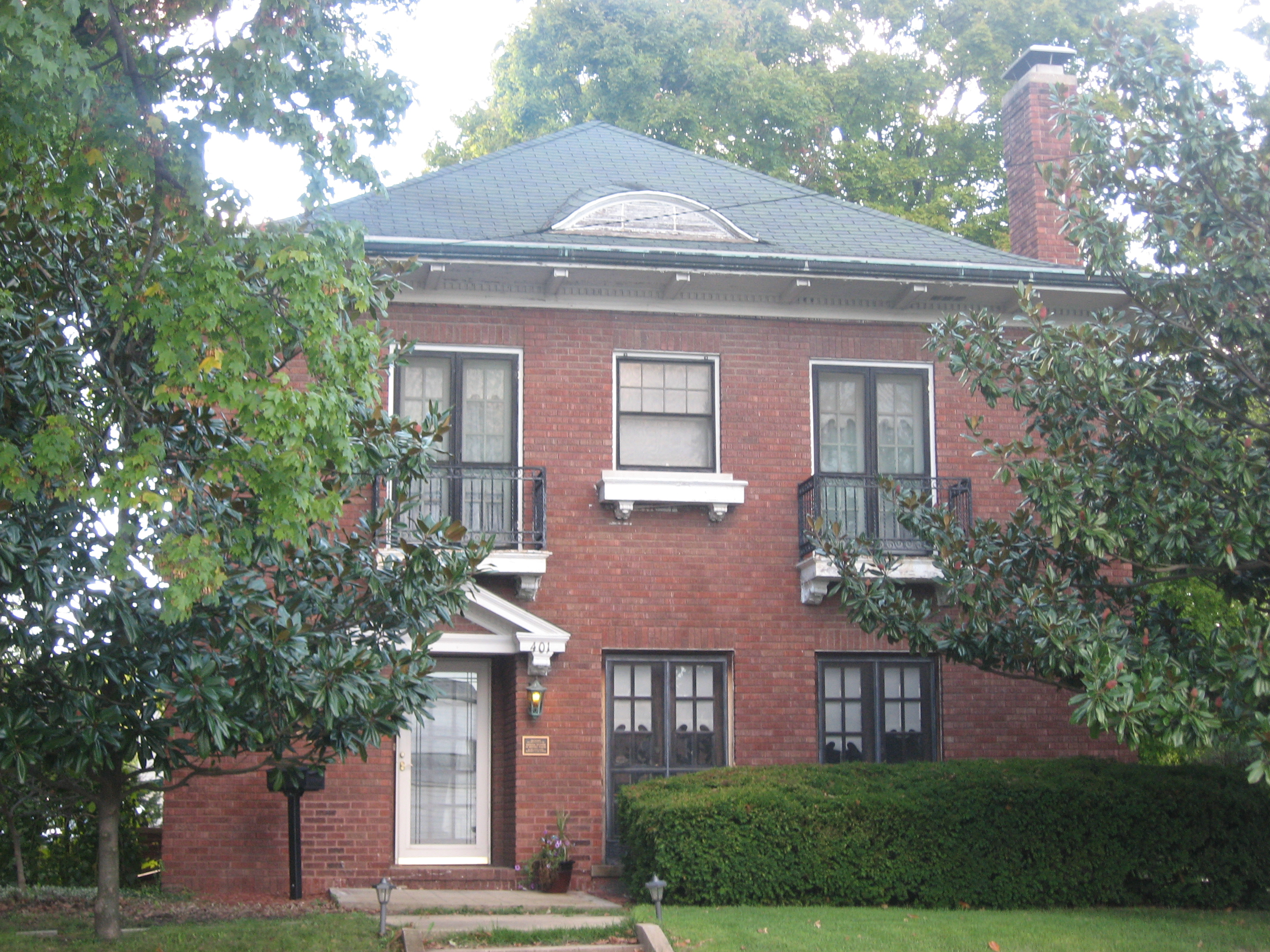 Front of the Charles and Naomi Bachmann House, located at 401 S. Walnut Street in Salem, Illinois, United States. Built in 1929, it is listed on the National Register of Historic Places.